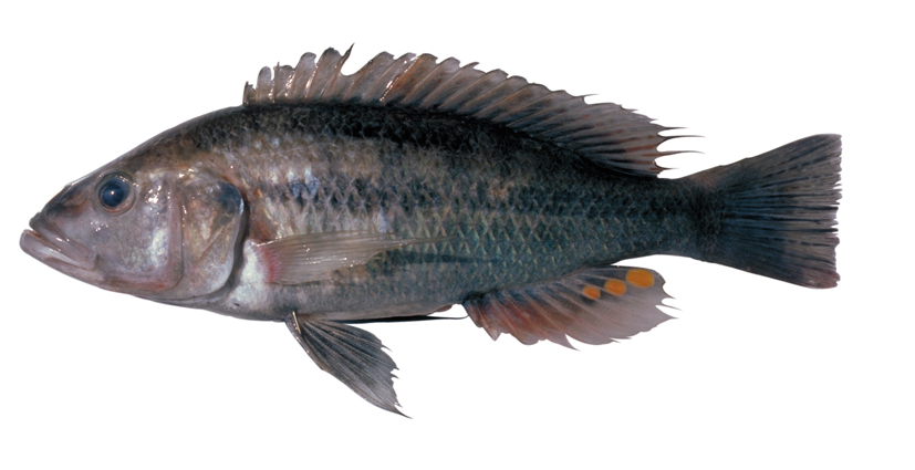 Haplochromis vonlinnei, ripening male.